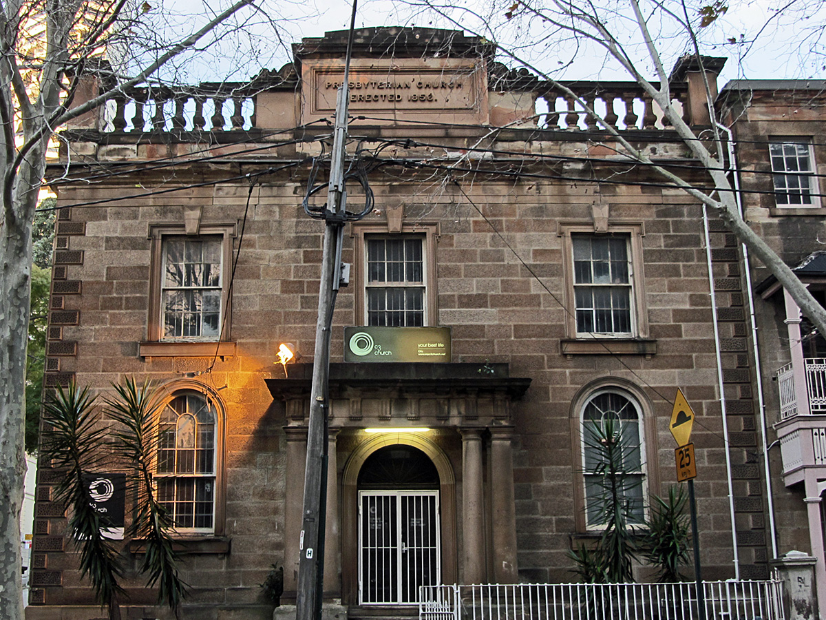 A presbyterian church in Darlinghurst, New South Wales, erected in 1850.